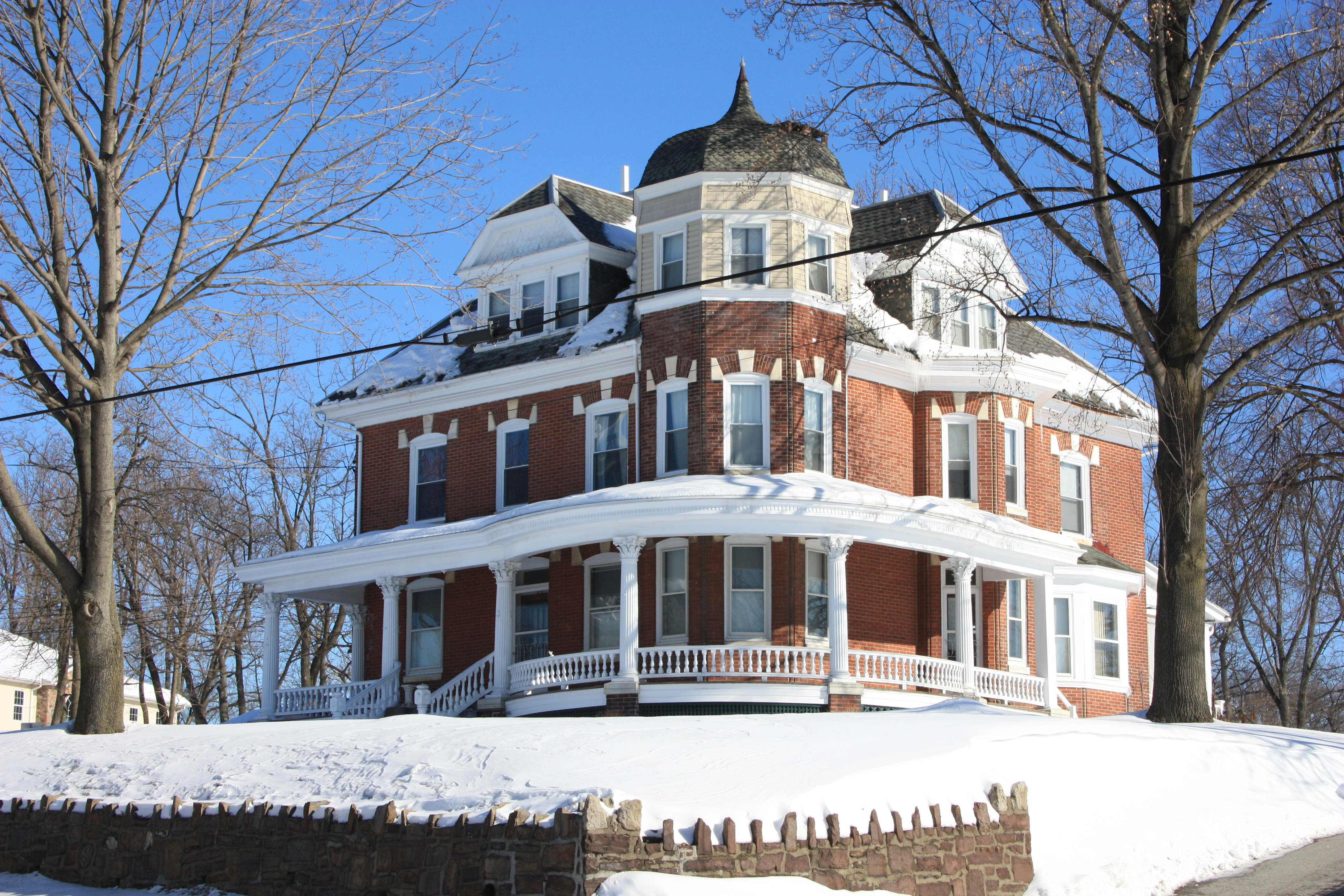 Victorian House on Ridge Pike, Trooper, Lower Providence Township, Montgomery County, Pennsylvania. Photo by the Montgomery County Planning Commission.